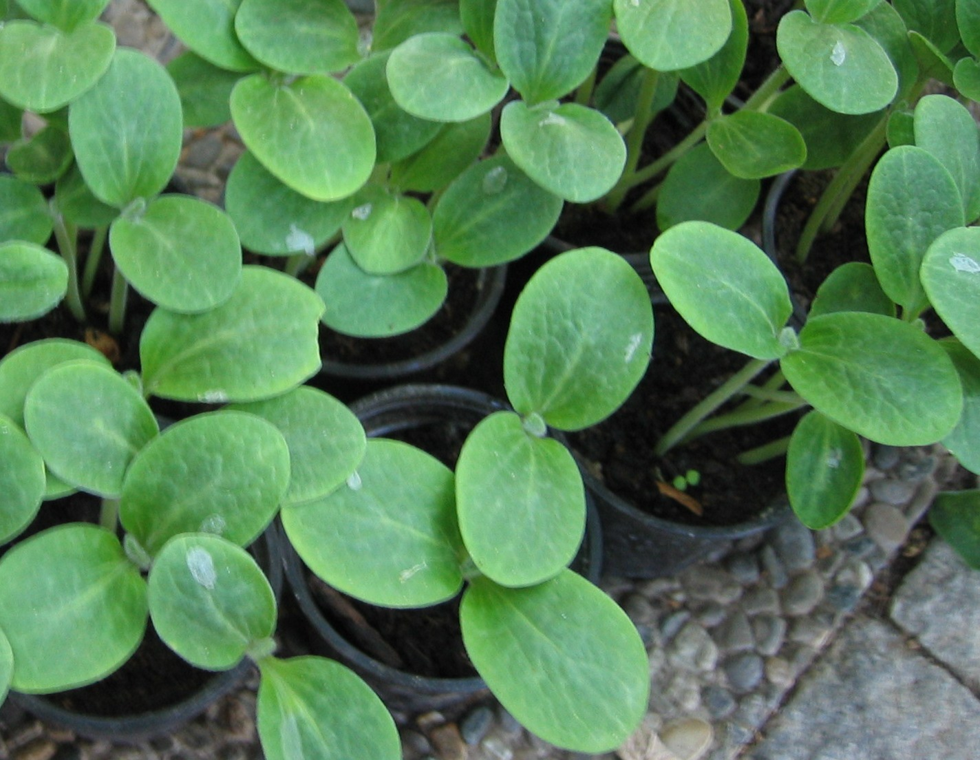 young pumpkin plants